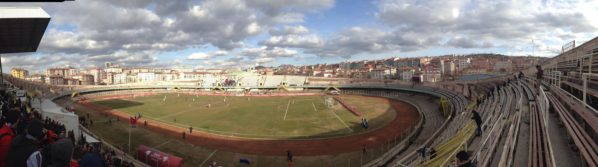 Cebeci Inonu Stadium panoramic view